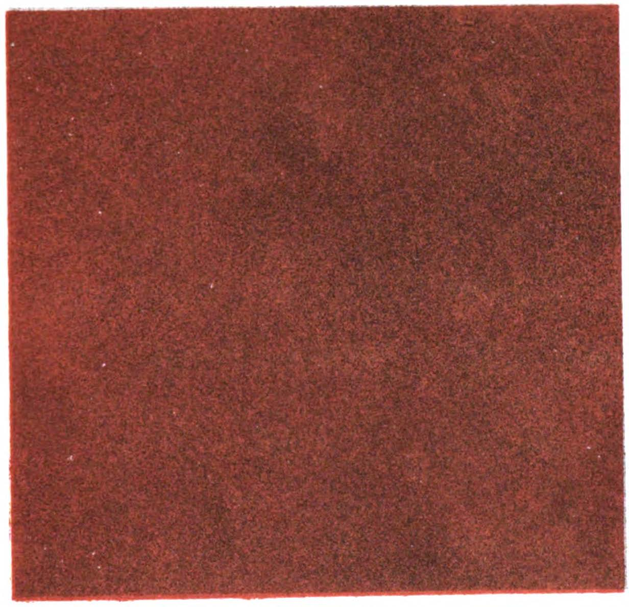 Plate XXVII of 1898 publication called Maryland Geological Survey Volume Two, with caption "RED SANDSTONE. Seneca, Montgomery County." Width of the field is approximately 10.7 cm. This is the Triassic Poolesville Member of the Manassas Sandstone.